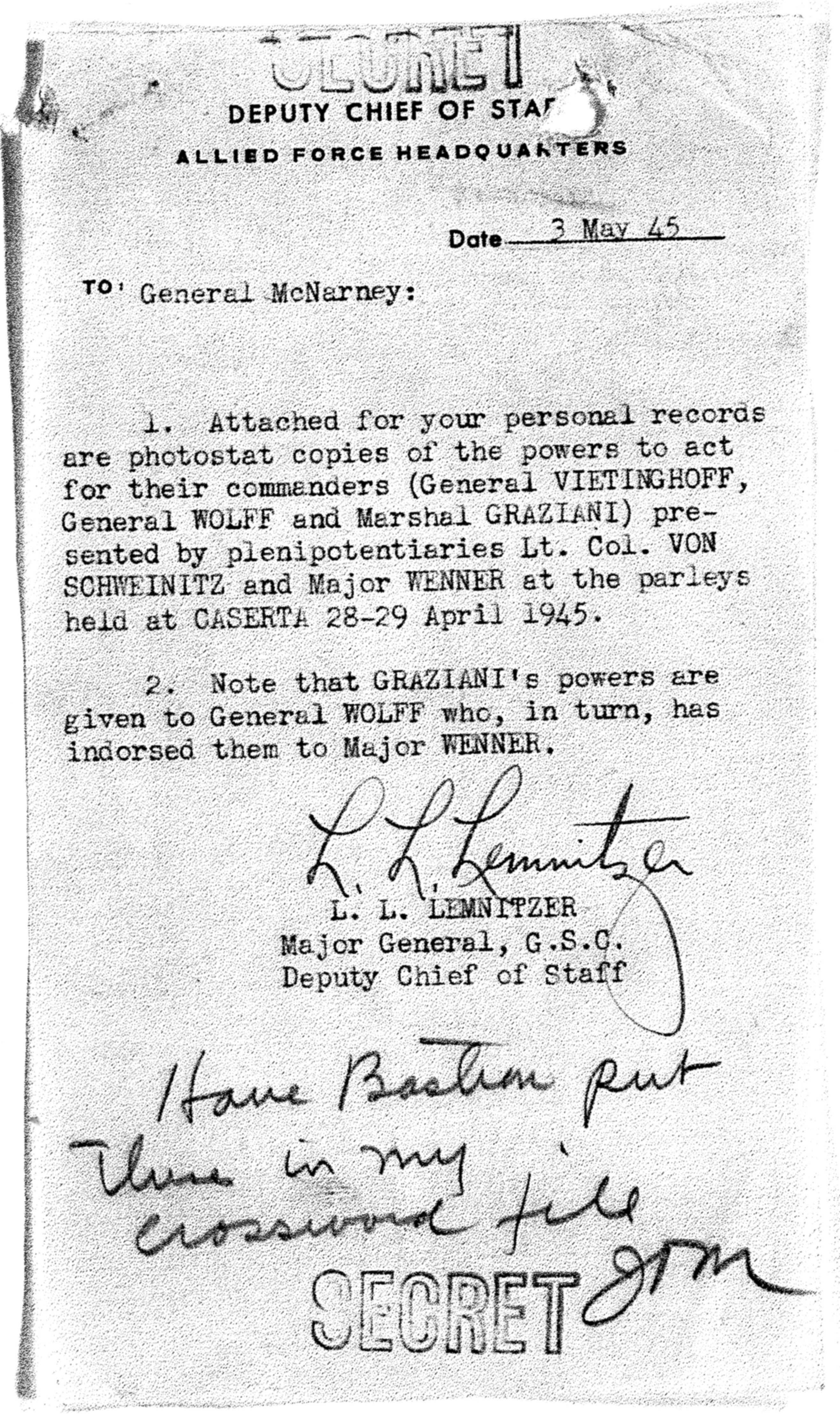 Accompanying letter for the photostat copies of the Caserta surrender Proxies